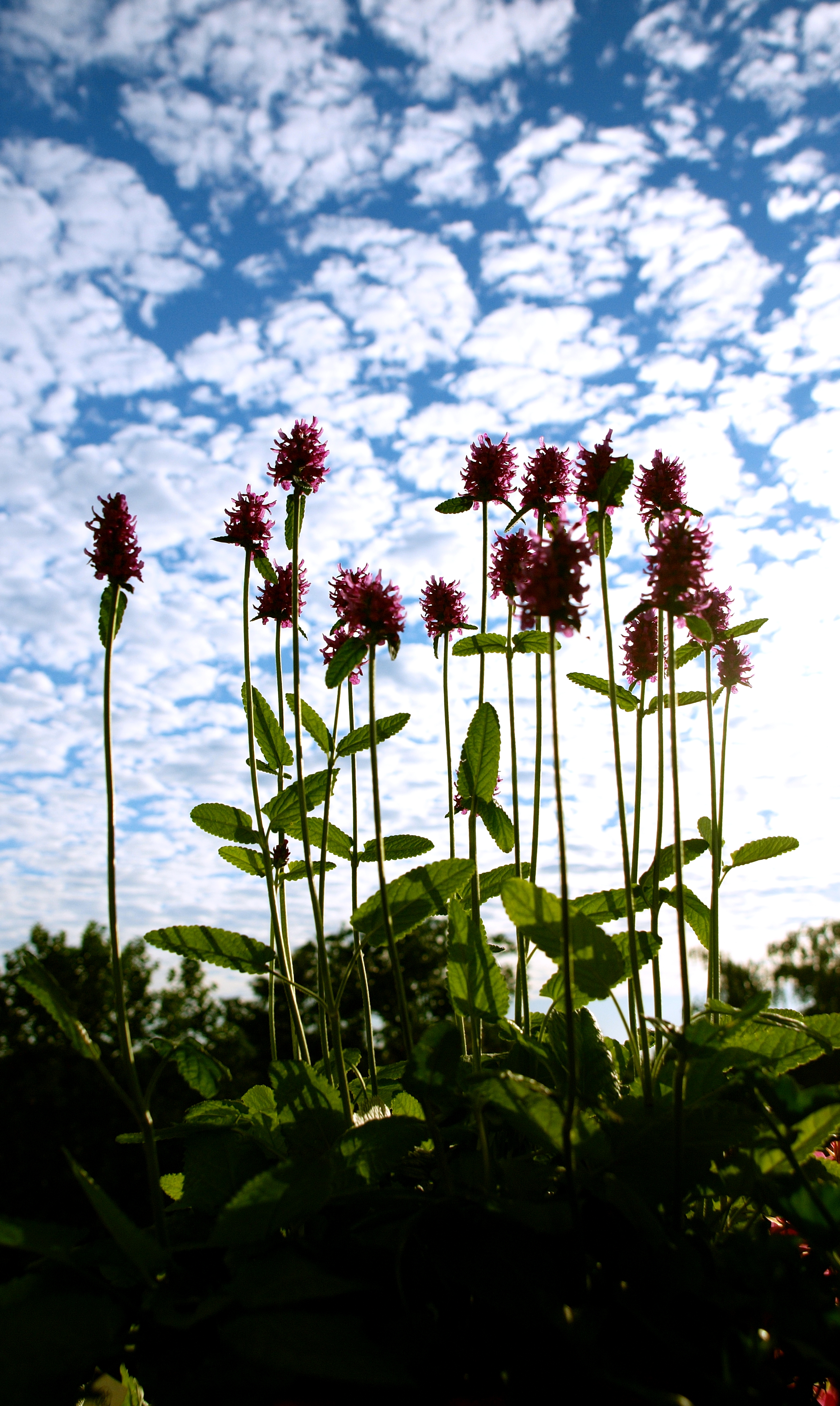 Betonica hirsuta kultursorte monierii